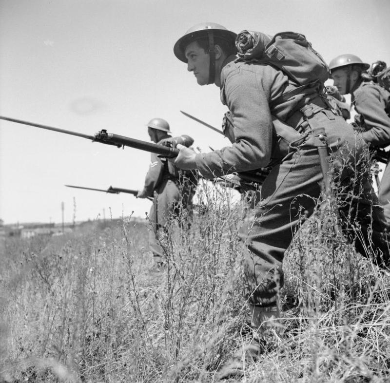 Allied Forces in the United Kingdom 1939-45 Belgian troops advance with fixed bayonets during training in Wales, 8 July 1941.